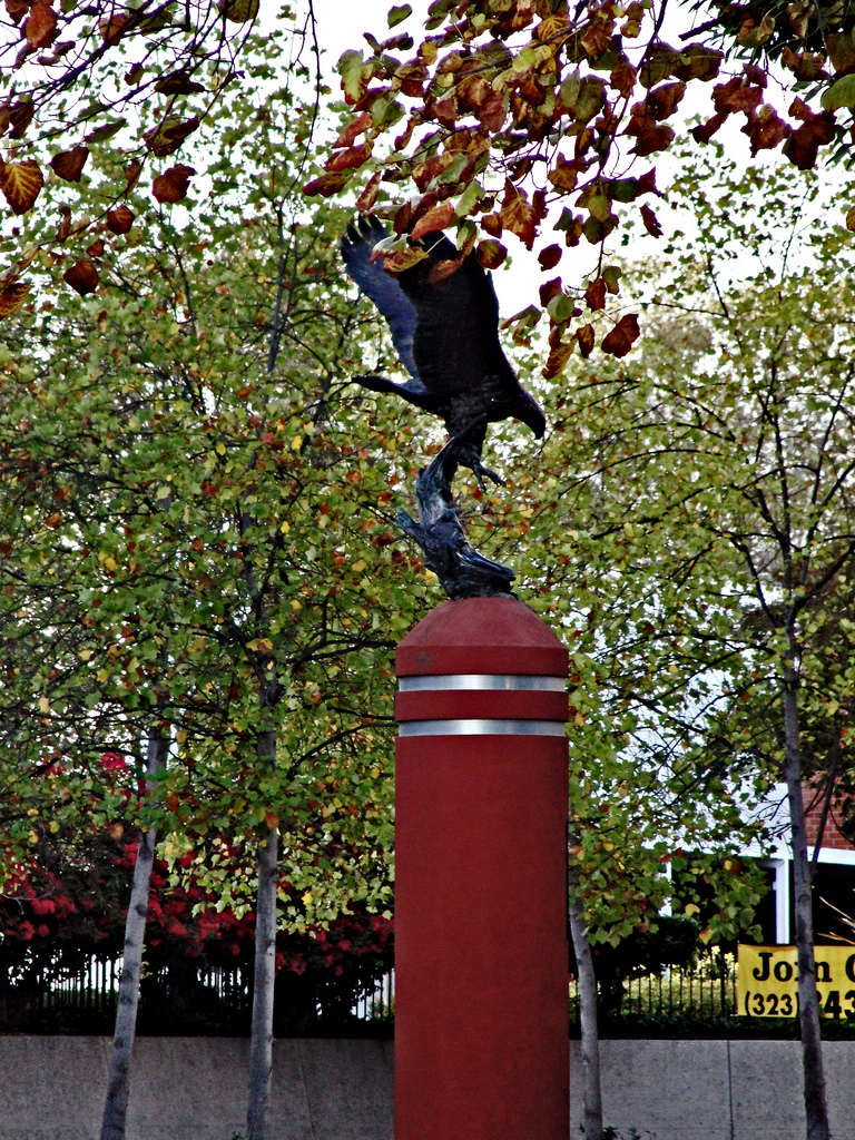 Bronze sculpture of CSULA's Golden Eagle mascot